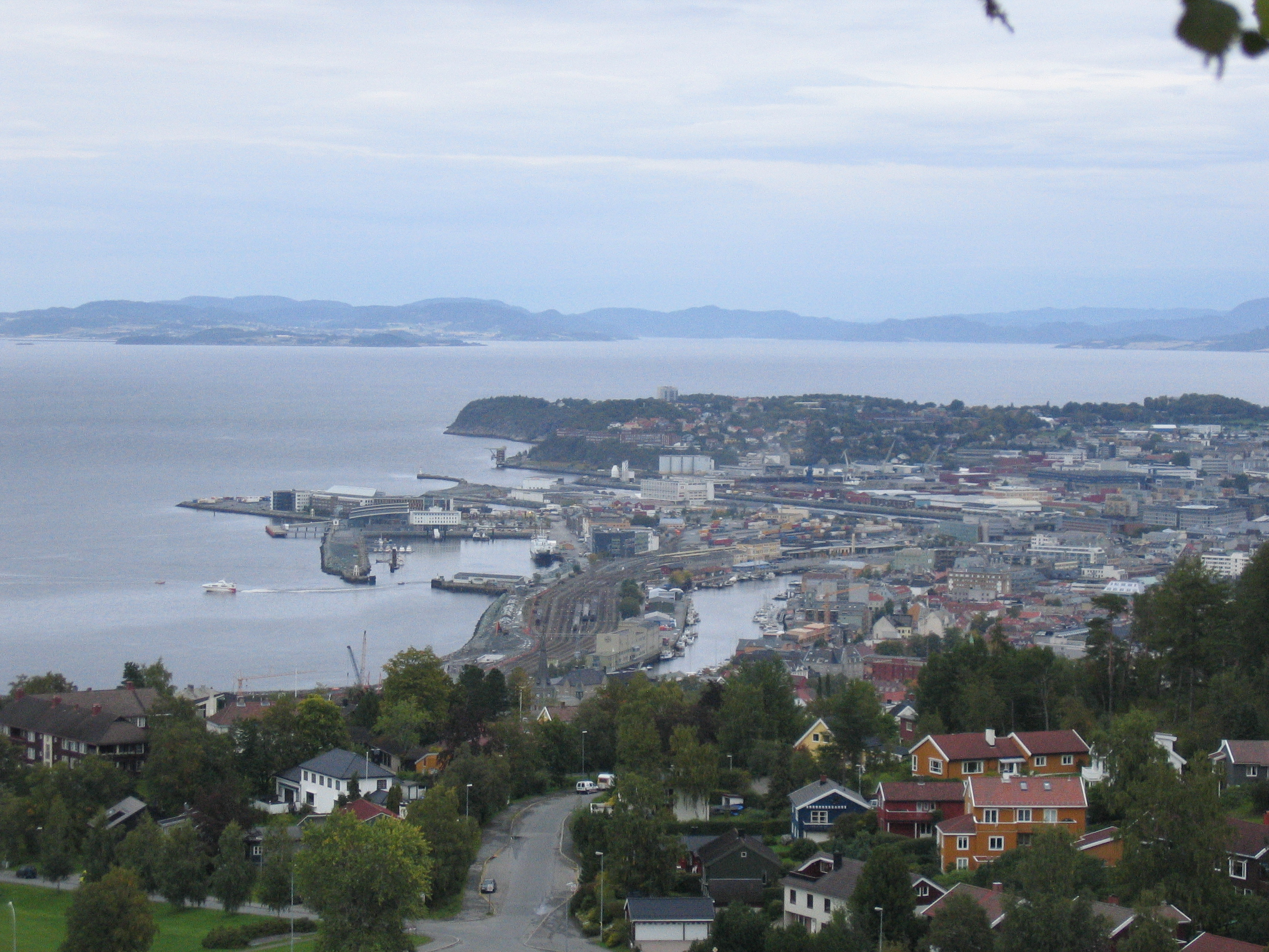 View over Brattøra in the lower parts of Trondheim, Norway.